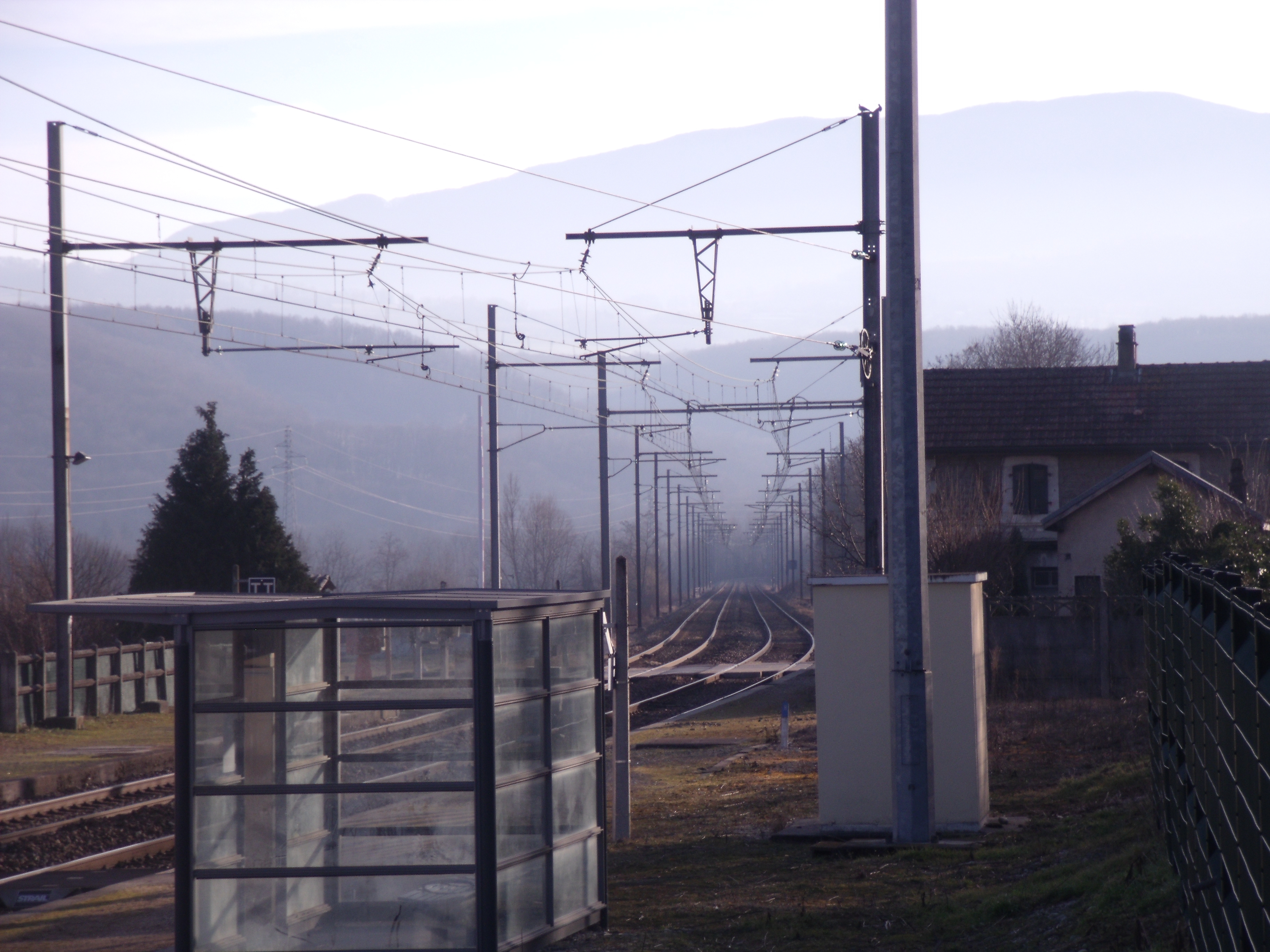 Pougny-Chancy halt looking towards Lyons